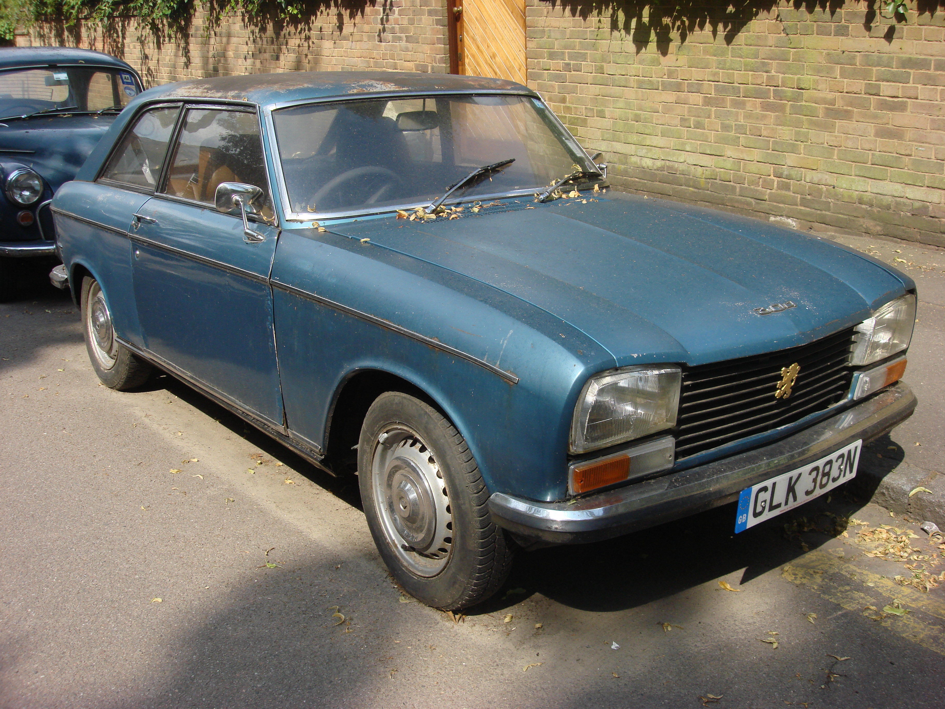 A Peugeot 304 Coupé, in Hampstead London